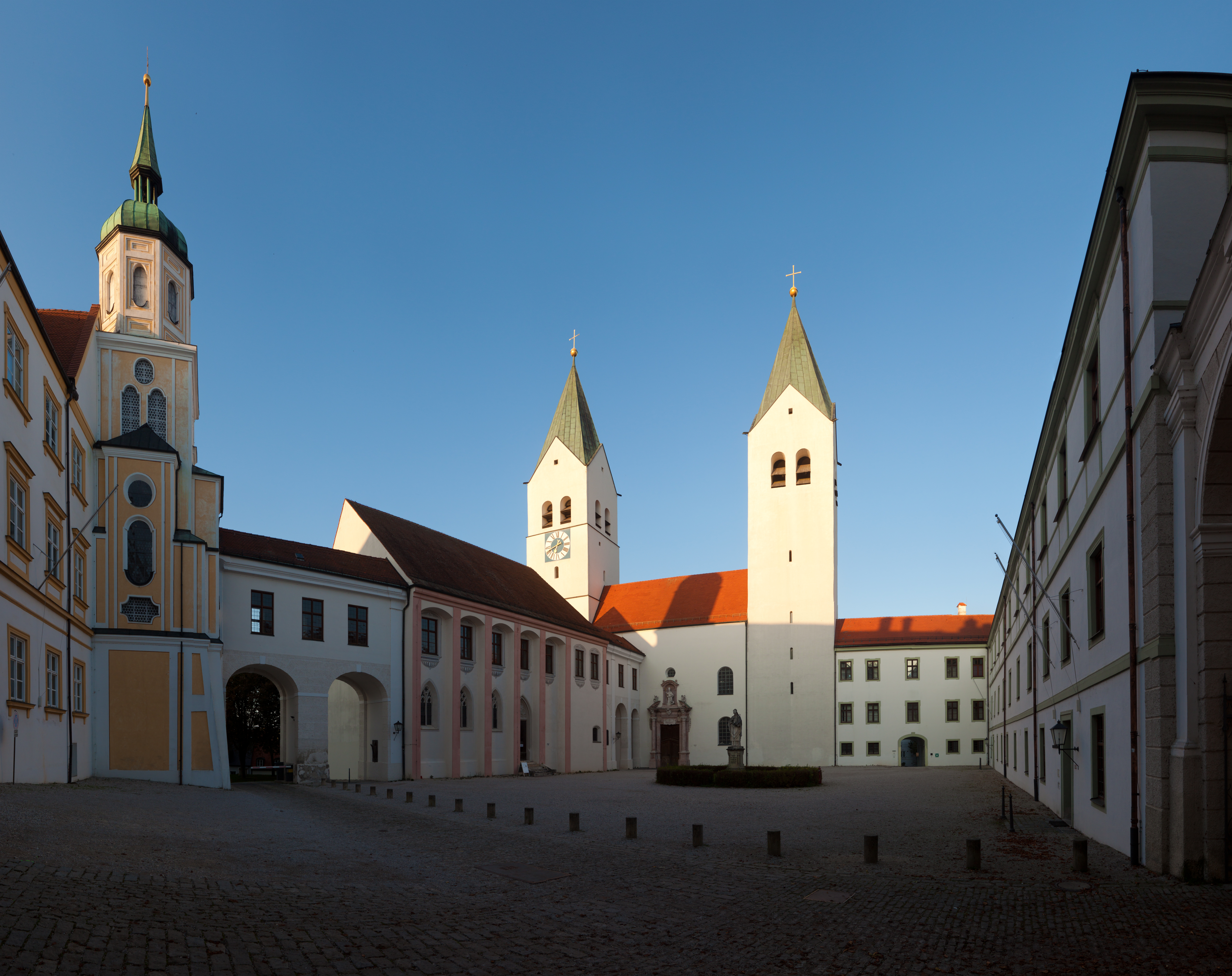 Courtyard of the cathedral hill and the Freising Cathedral.